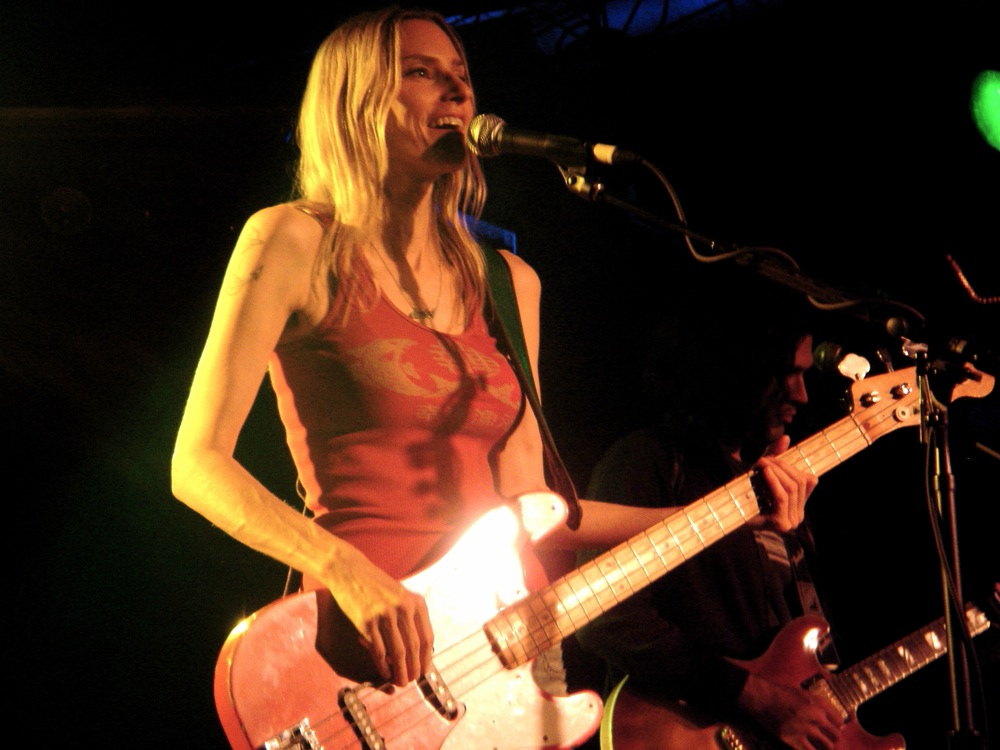 Aimee Mann in concert at the Belly Up Tavern, Solana Beach.